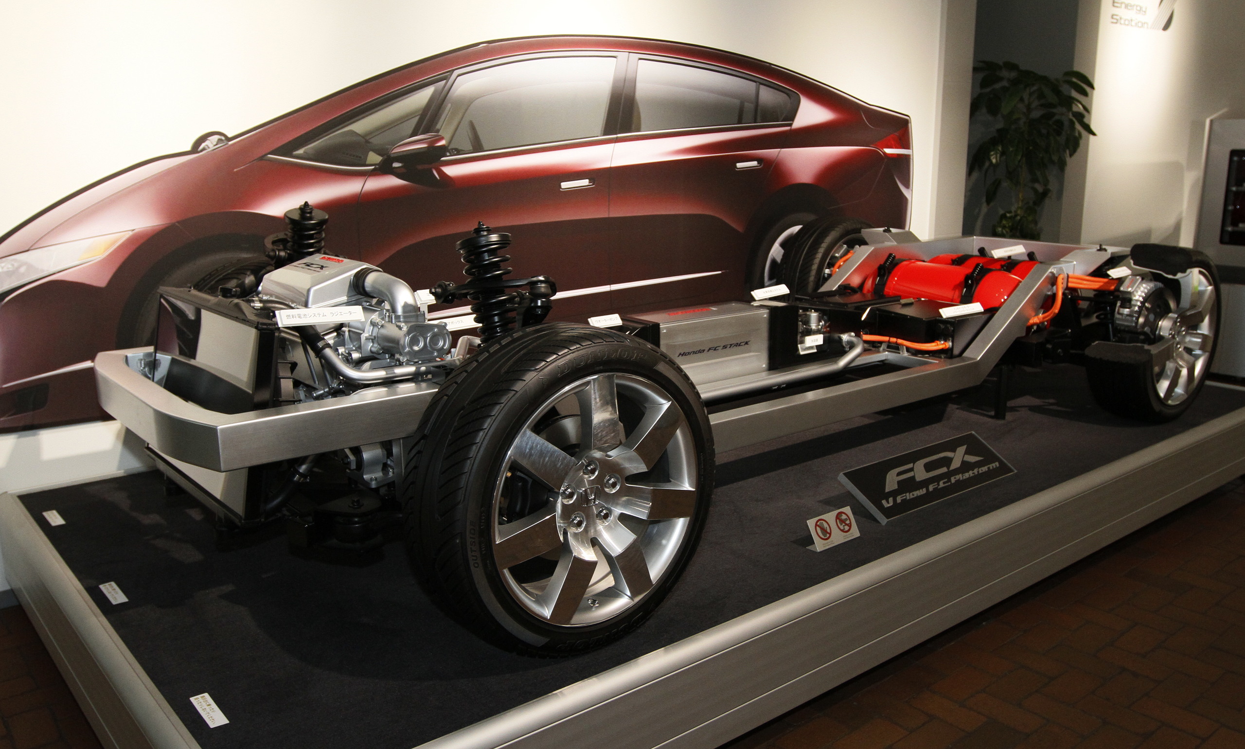 Honda FCX prototype; the V Flow F.C. Platform